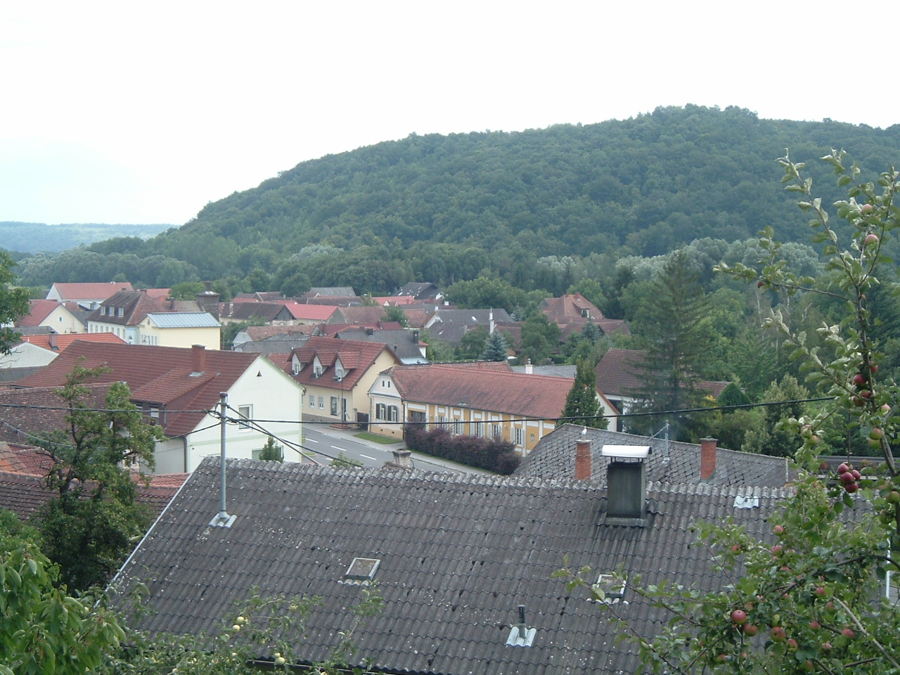 Hannersdorf (Sámfalva)